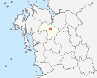 Map of Yesan County in South Korea